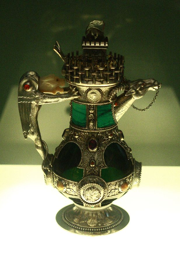 Decanter 1865 Glass and silver London Burges, William (A.R.A.) (designer) Mendelson, Josiah (maker) Nicholson, James (probably commissioned, retailer) Green, Richard A. (of gemstones and coins, supplier) Glass bottle, mounted in parcel-gilt silver set with rock crystal, malachite, mother-of-pearl, semi-precious stones, intaglios and coins The architect and designer William Burges (1827-1881) designed several decanters (decorative vessels for serving wine at the table) similar to this one. These included two for use in his own home, Tower House in Kensington, London, as shown in contemporary photographs. Burges looked to the arts of China, Assyria, ancient Greece and Rome, and medieval Europe as inspiration for this design. This decanter was made to accompany a drinking cup which the merchant James Nicholson had ordered in 1863. The cup is now on display in the Silver Galleries of the V&A. The decanter was ordered by Nicholson through Richard A. Green, whose firm appears to have been largely concerned with the manufacture of jewellery. Green did not make the decanter, though he probably supplied the expensive and unusual decorative embellishments, such as the hardstones, ancient Greek and Roman coins, and the large, rare piece of mother-of-pearl which forms the lion's head on the handle. The maker was the silversmith Josiah Mendelson. A surviving bill indicates that Green was paid �48 6s 8d for the decanter, and a further 8s 6d for a case. Collection ID: CIRC.857-1956 This photo was taken as part of Britain Loves Wikipedia in February 2010 by Iza Bella.